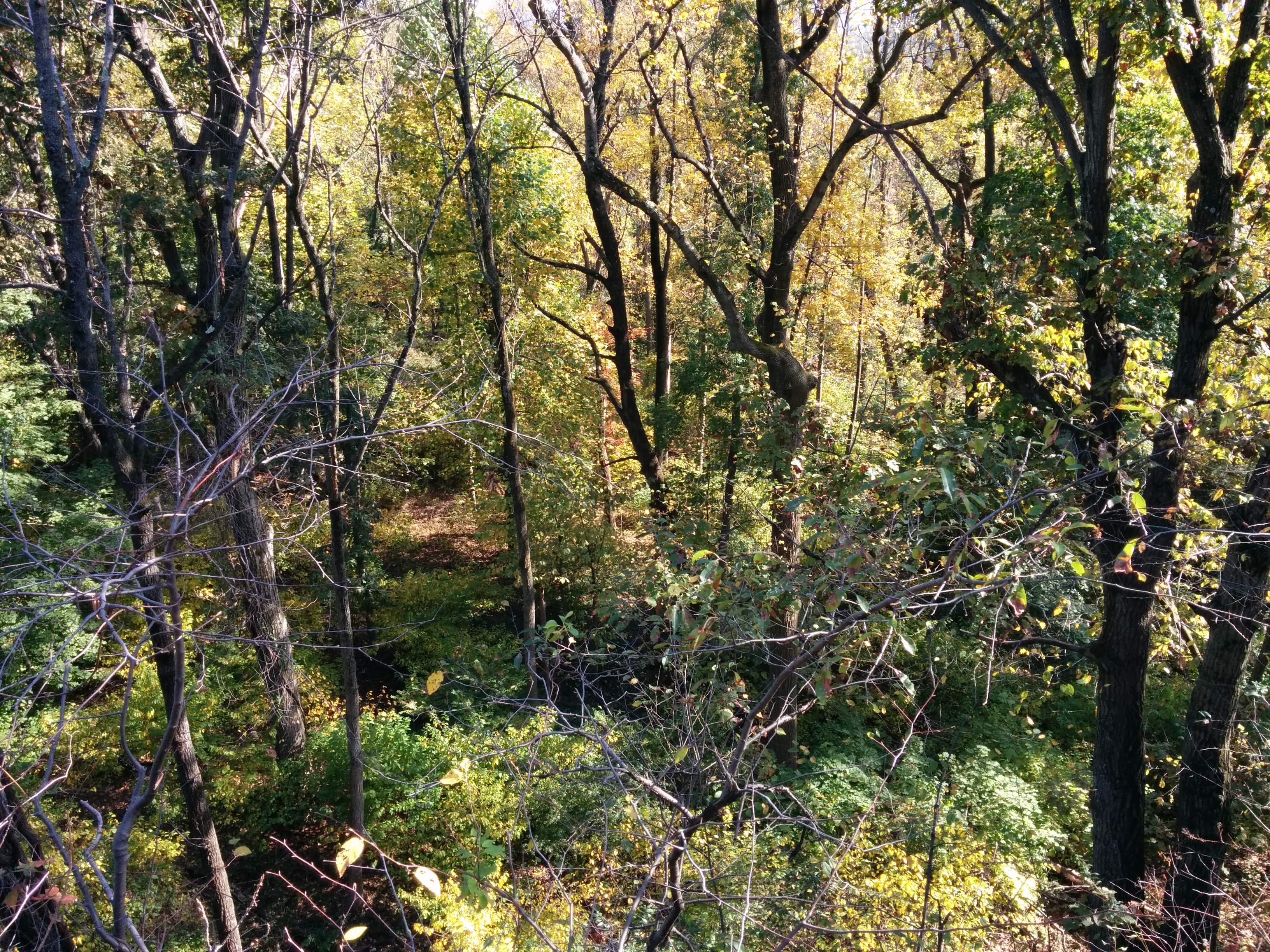 View from east-facing cliff in Mills Reservation, Essex County, NJ, taken Oct 25 2014.